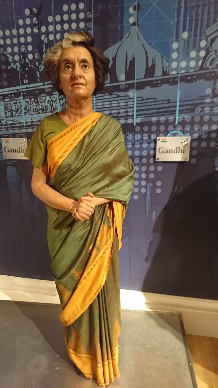 Indira Gandhi is the first prime minister of india to have a wax figure